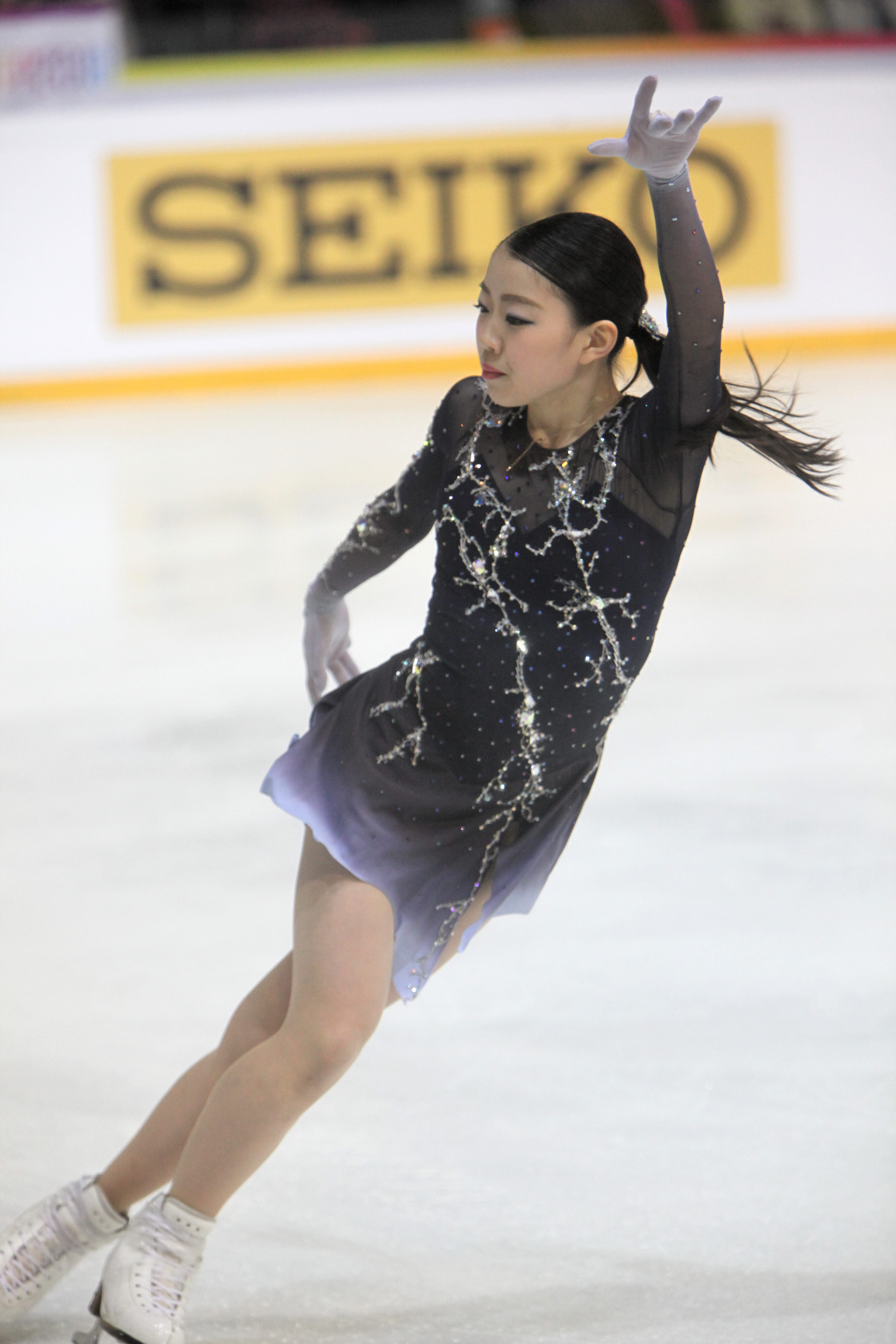 Rika Kihira during the Ladies Free Skating at the Internationaux de France de Patinage 2018.